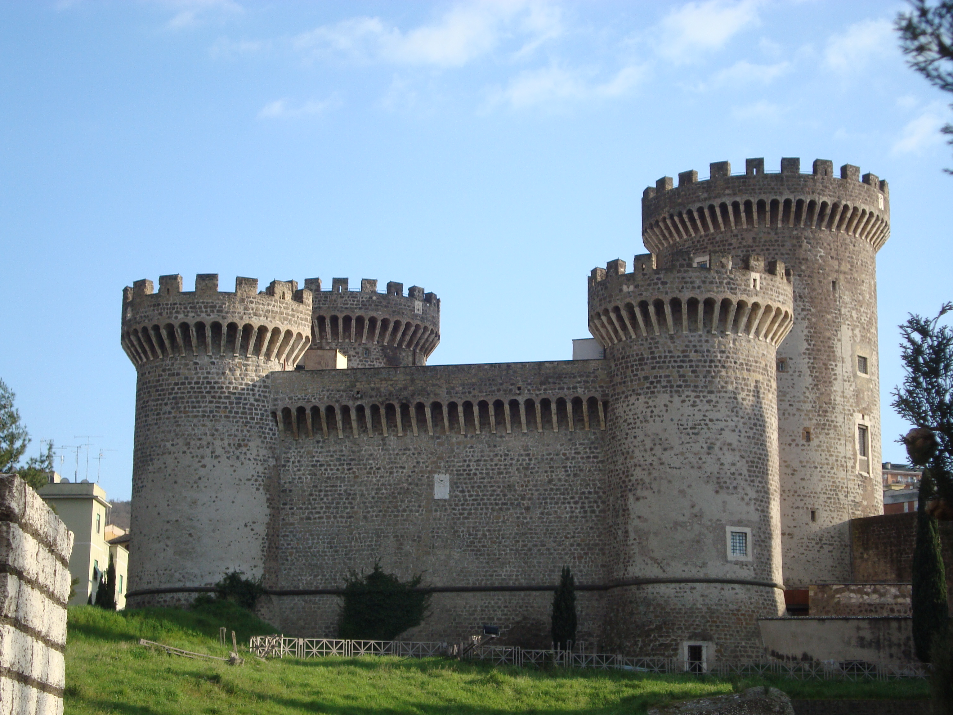 Rocca Pia fortress and jailhouse in Tivoli erected in 1461 by pope Pius II